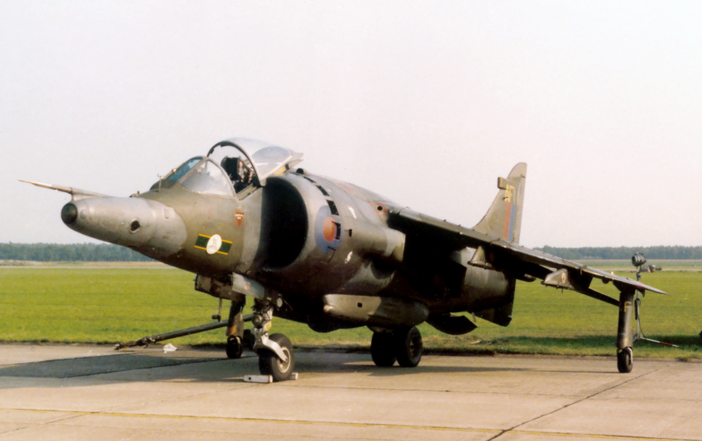 De Peel open day 20 September 1980. De Peel, close to Volkel, was a reserve base until its closure in 2012. Only one open day was held here. Harrier GR3 XV795/AF of 3 Squadron (Gütersloh, West Germany) was in the static show and flew a demo. Scan of photo.